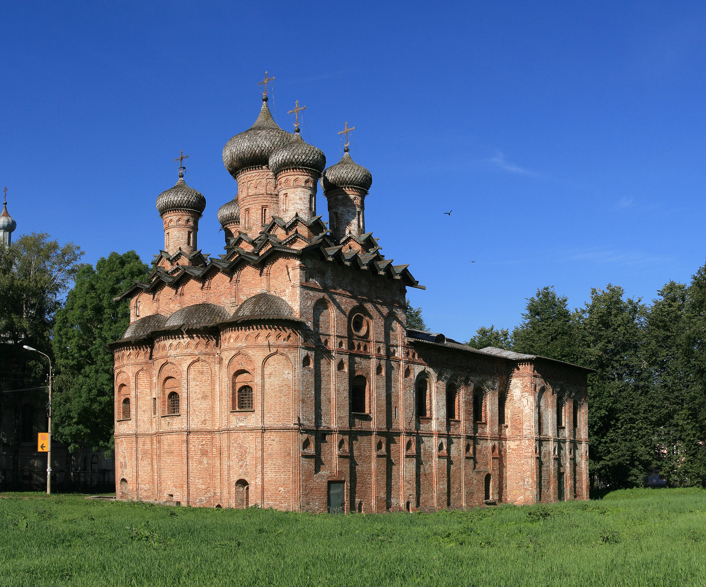 Holy Trinity Church at Dukhov Convent, Veliky Novgorod